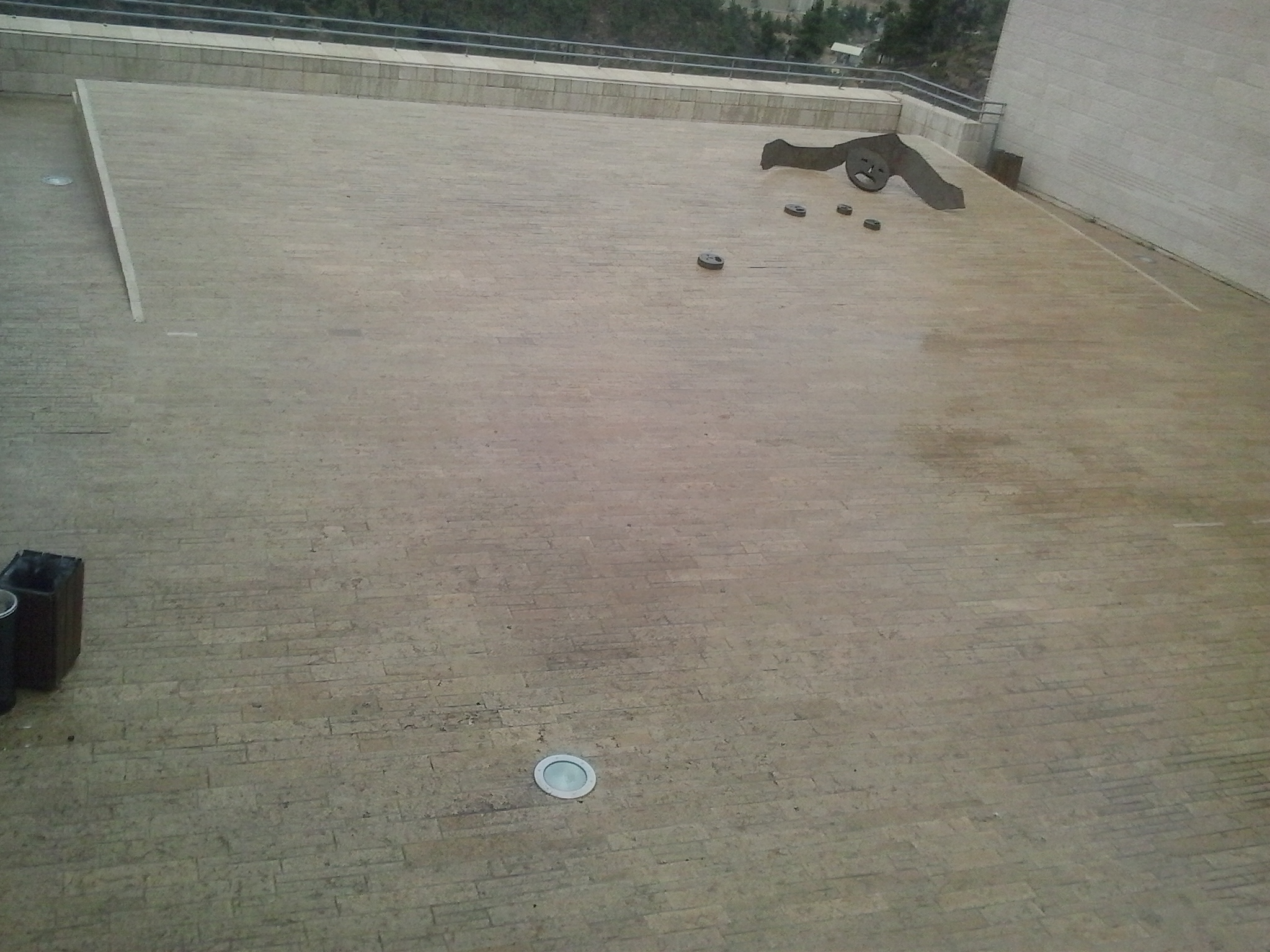 Family Square at Yad Vashem, Jerusalem, 2015